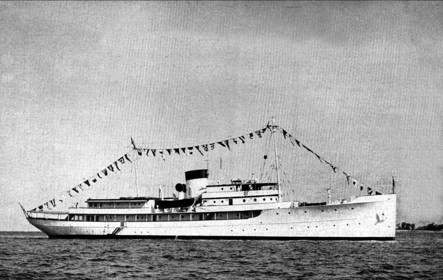 The U.S. Navy presidential yacht USS Williamsburg (AGC-369), in 1950.